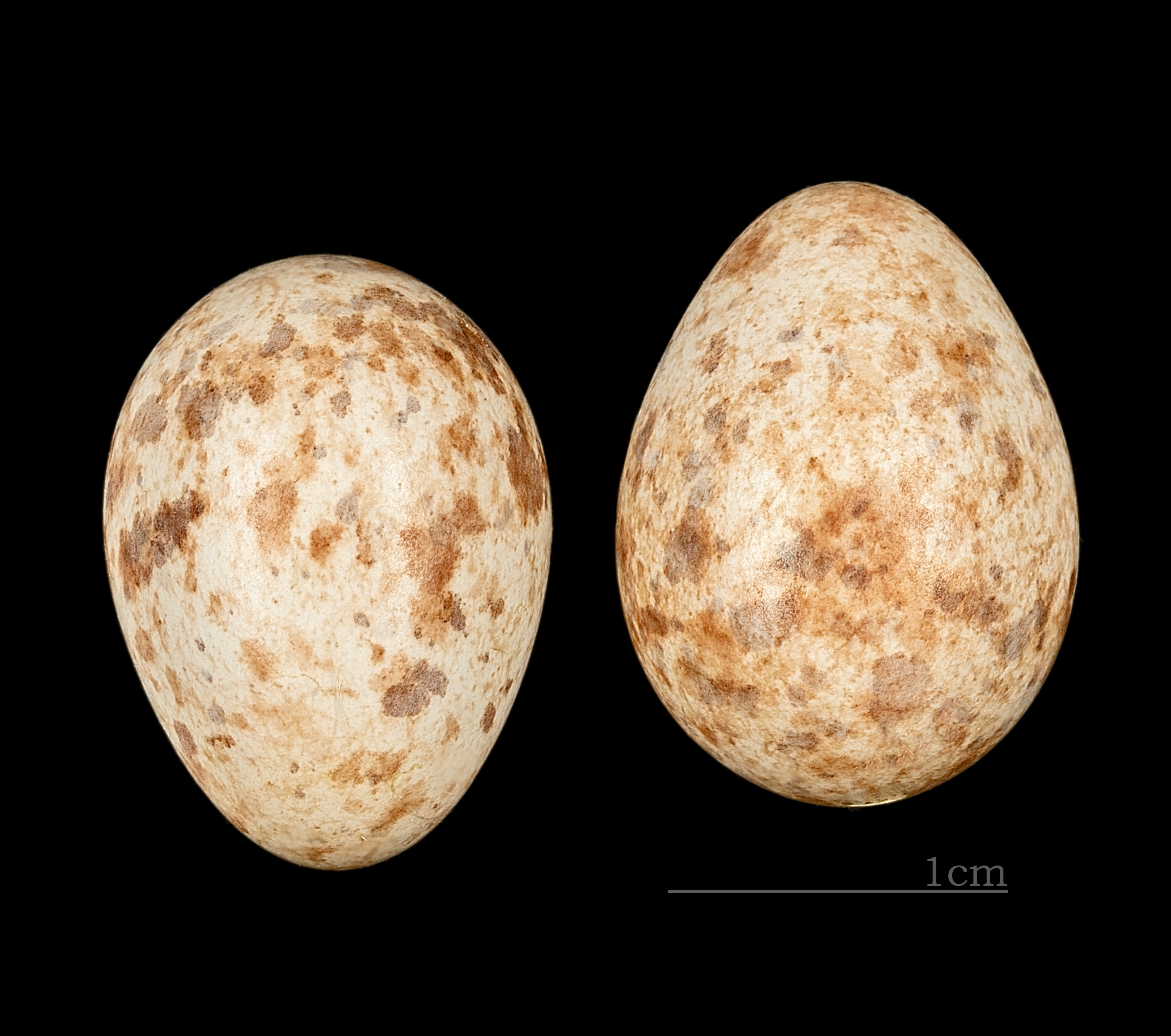 Egg of Ferruginous Flycatcher Collection of Henri Heim de Balsac /Jacques Perrin de Brichambaut.